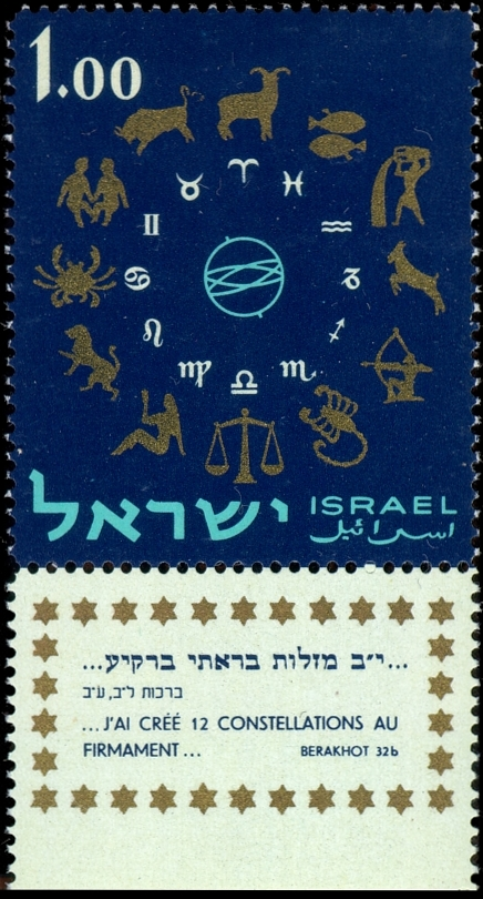 Zodiac II stamp - 1.00 Israeli lira